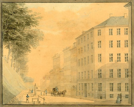 Nørre Voldgade in Copenhagen, Denmark as seen from the corner of Larsleistræde with the Nørre Vold rampart and a ropewalk seen on the left.